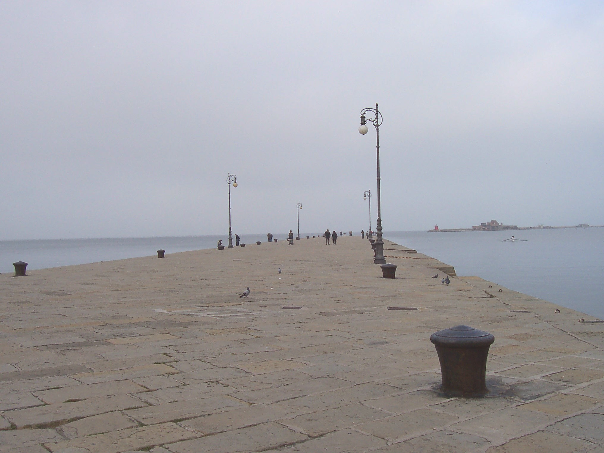 Trieste il molo Audace Source photographed by myself Photographer Pier Luigi Mora Date 30 October 2005 Camera Data Camera Kodak CX6330 zoom digital camera